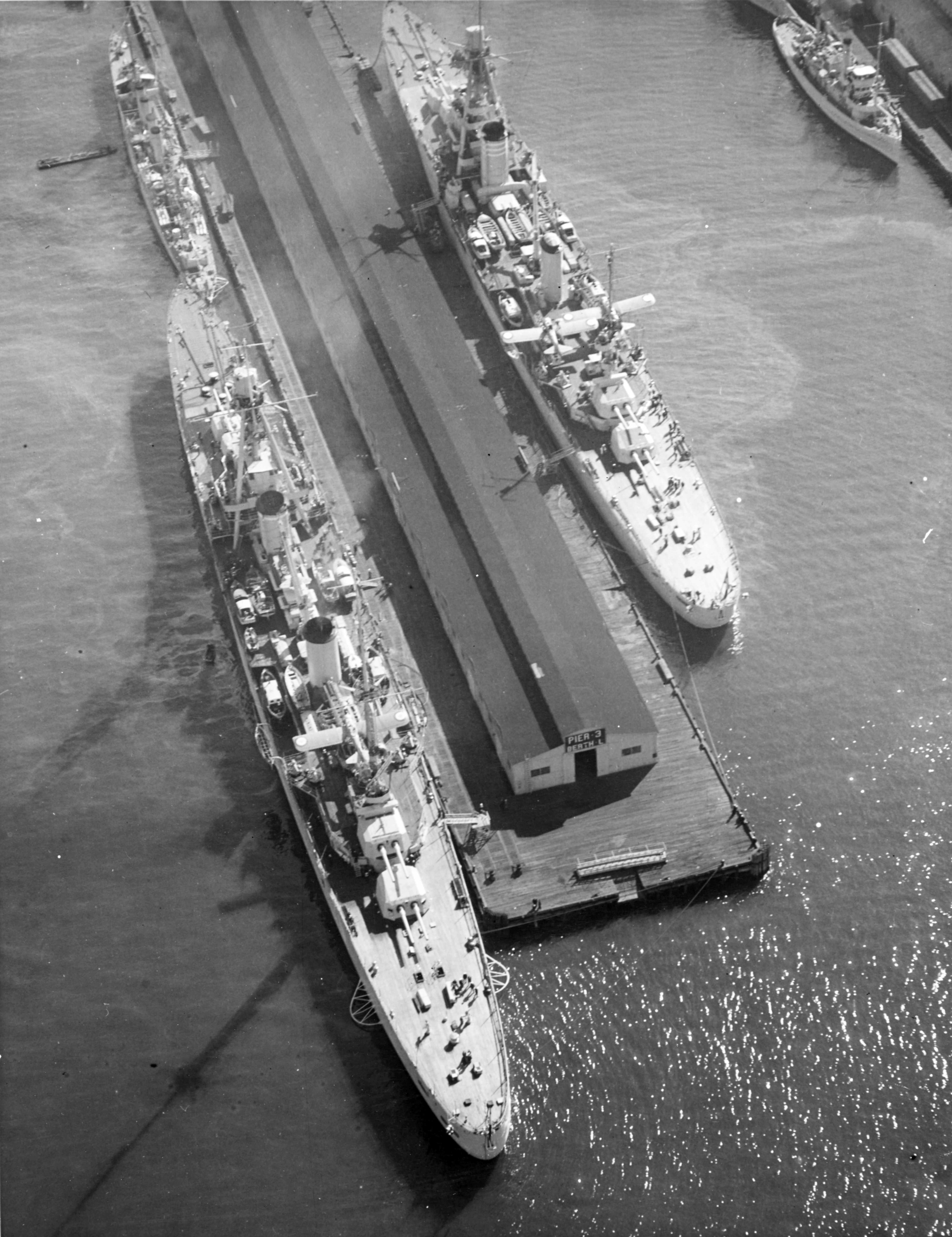 The French heavy cruisers Suffren, above and to starboard, and Duquesne, photographed 15 October 1934 by a unit of the U.S. Navy scouting fleet. Note the U.S. Navy Wickes/Clemson-class destroyer tied up in front of Duquesne.